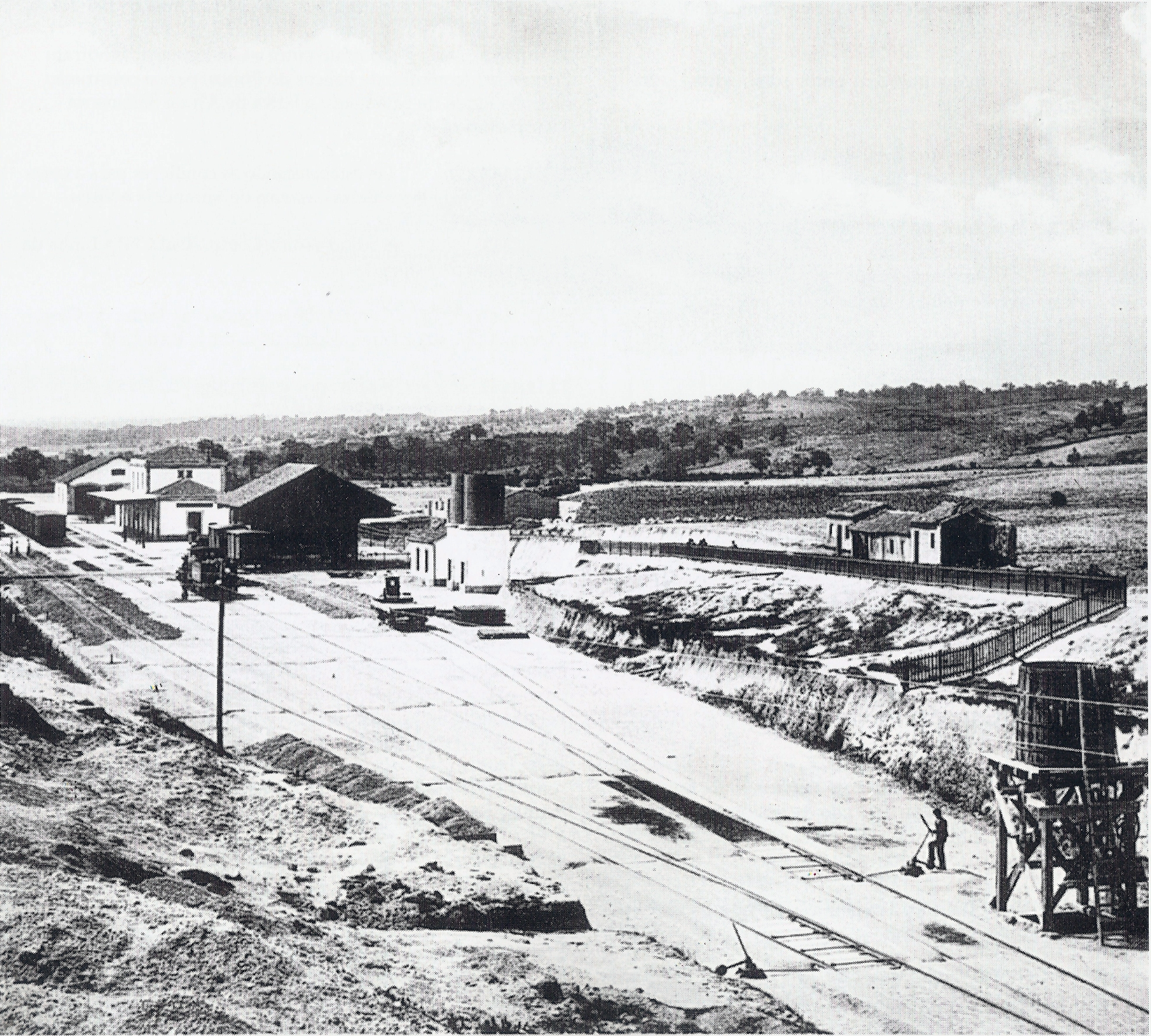 Guarda Railway Station, in Portugal. This photograph was probably taken in the first years after its inauguration, in 1882, as the "Guarda - Gare" neighborhood, that was formed around the station, didn't exist yet.